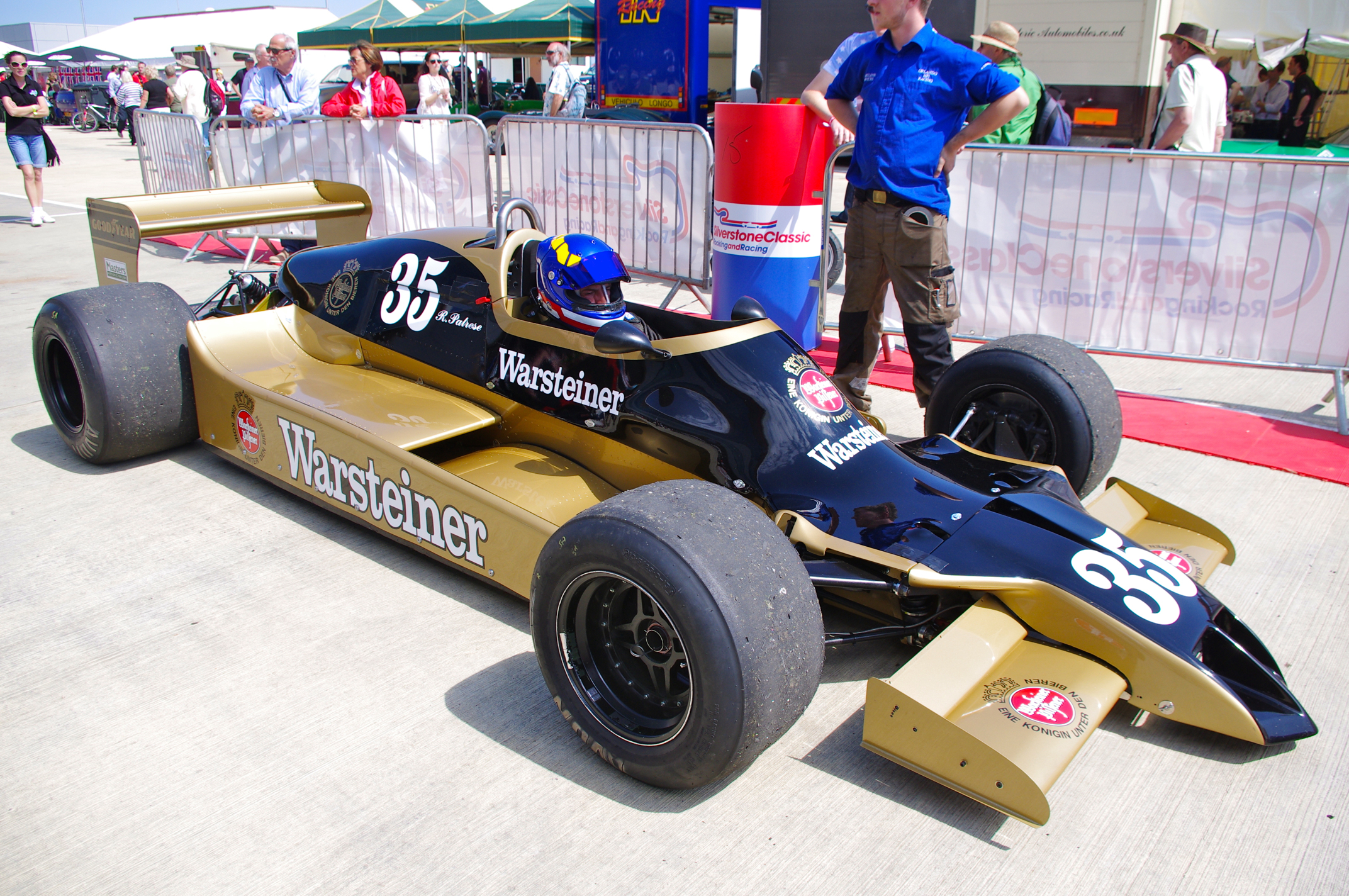 Silverstone Classic, 2012